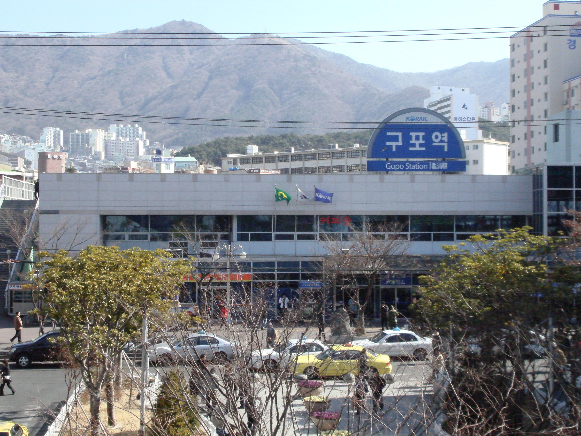 Gupo train station on the Gyeongbu Line in Busan